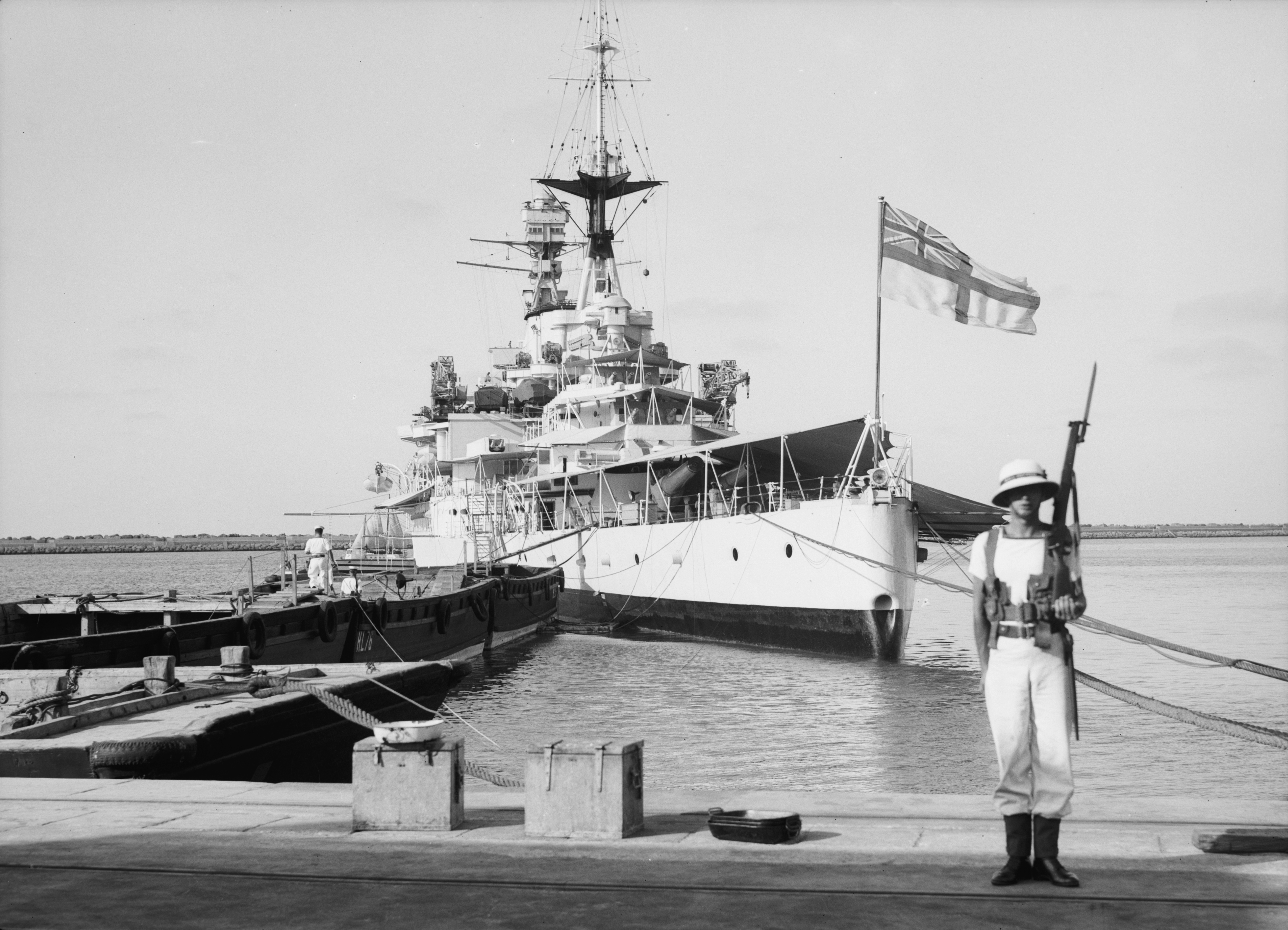 Haifa, result of terrorist acts & government measures. H.M.S. Repulse taken from the docks, marine on guard below British flag